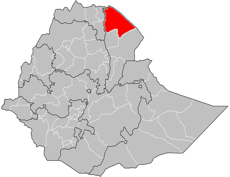 Ethiopia zones map with Afar Zone 2 enlighted.